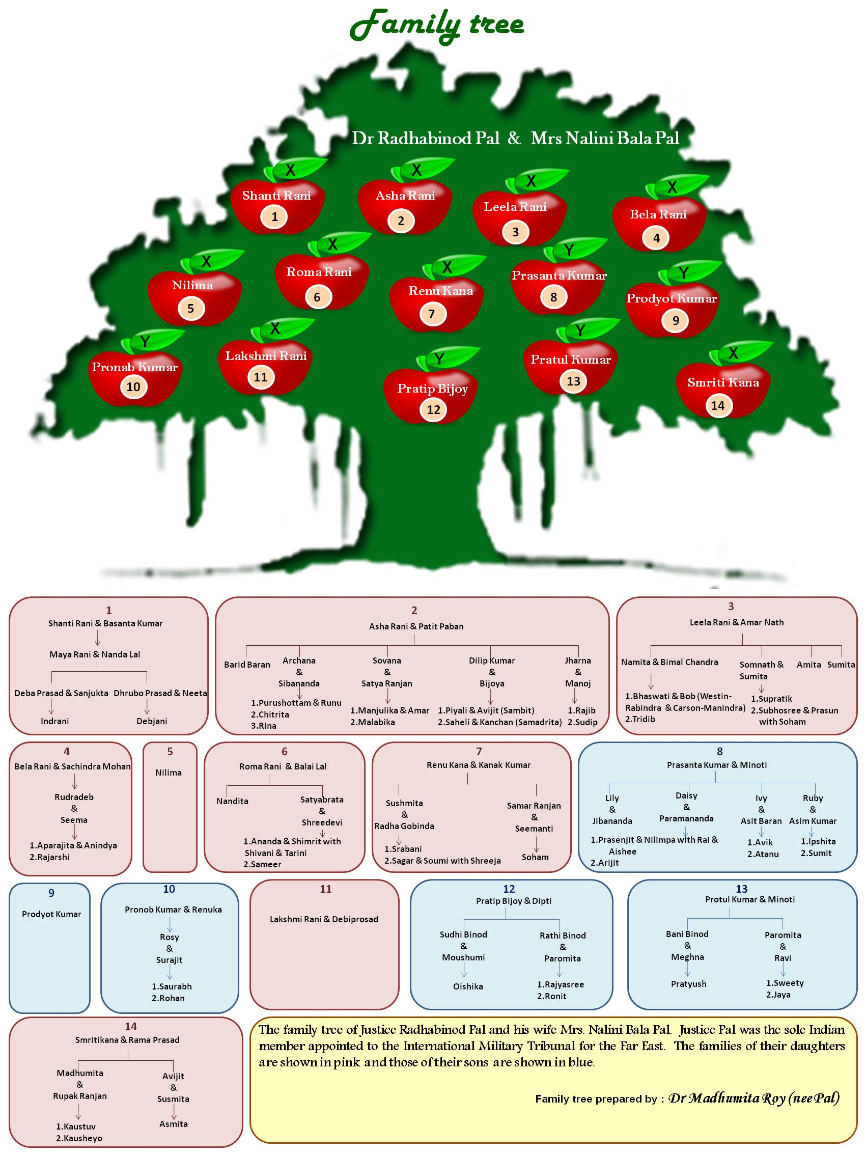 Family Tree of Radhabinod Pal